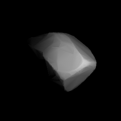 3D convex shape model of 2002 Euler, computed using light curve inversion techniques. J. Hanuš, J. Ďurech, M. Brož, B. D. Warner (June 2011). "A study of asteroid pole-latitude distribution based on an extended set of shape models derived by the lightcurve inversion method". Astronomy and Astrophysics 530: A134. ISSN 0004-6361. arXiv